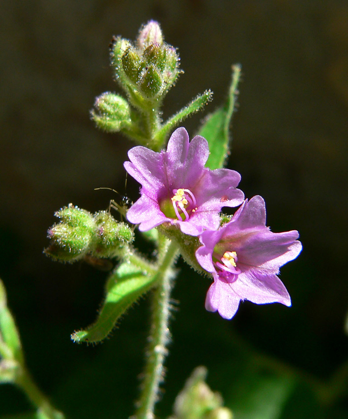 Mirabilis oxybaphoides in Fletcher Canyon, north side of Kyle Canyon, Spring Mountains, southern Nevada (elev. about 2300 m)